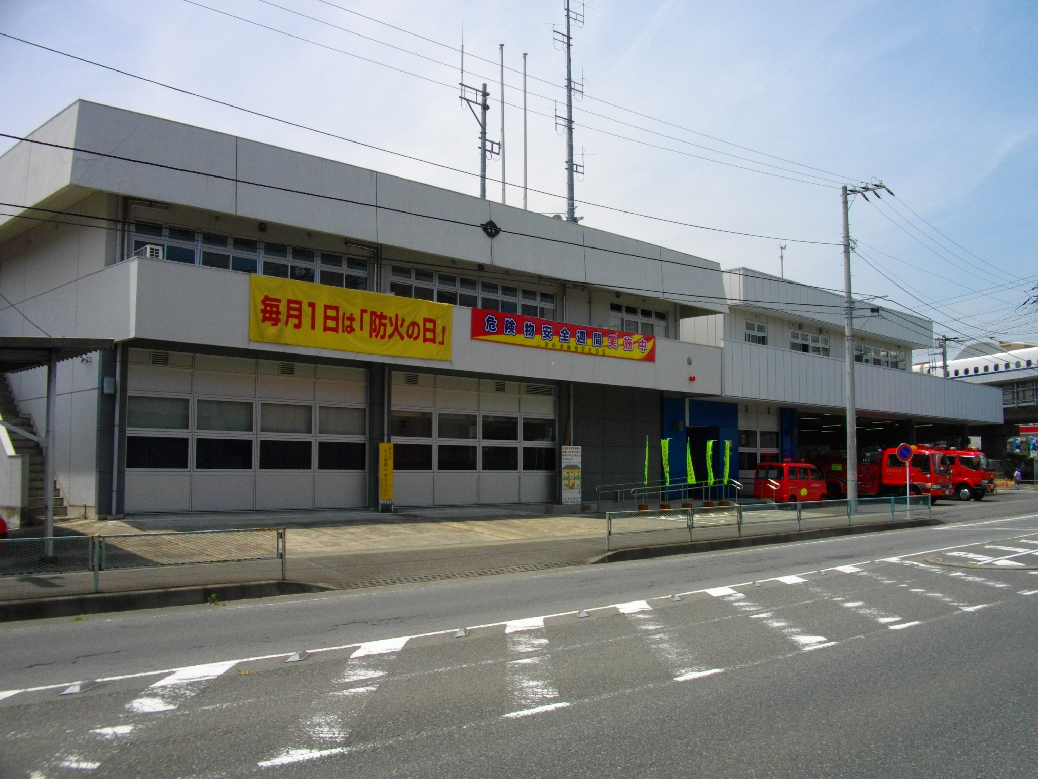 Ninomiya Town Fire Department